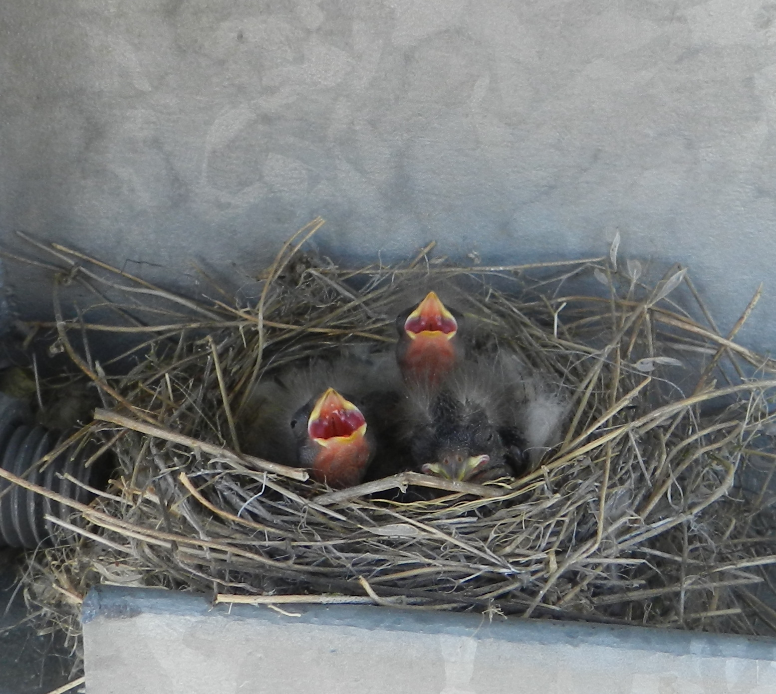 Snow bunting chicks